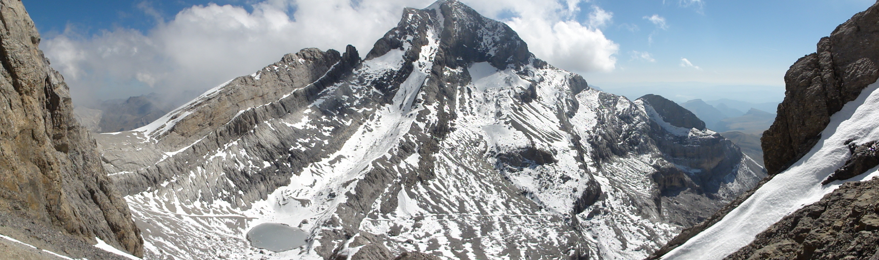 Parque Nacional de Ordesa y Monte Perdido, Vista desde el Cilindro This is a photography of a Special Area of Conservation in Spain with the ID: ES0000016. Natura2000 entry, EEA entry